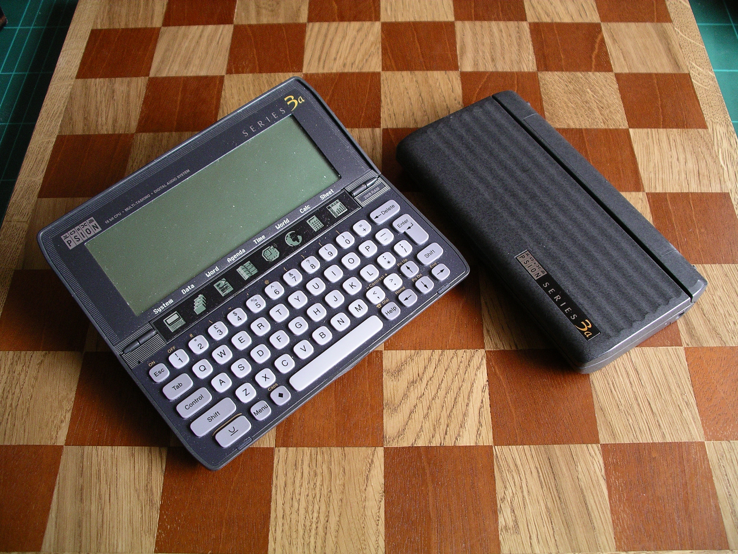 Photo taken by me on 17 October 2006 of one open Psion 3a and one closed Psion 3a. The background has 5 cms squares.